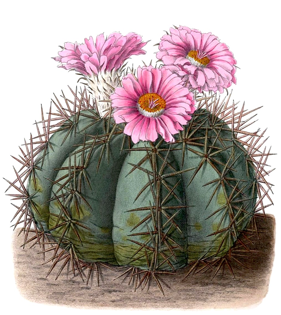 Echinocactus horizonthalonius